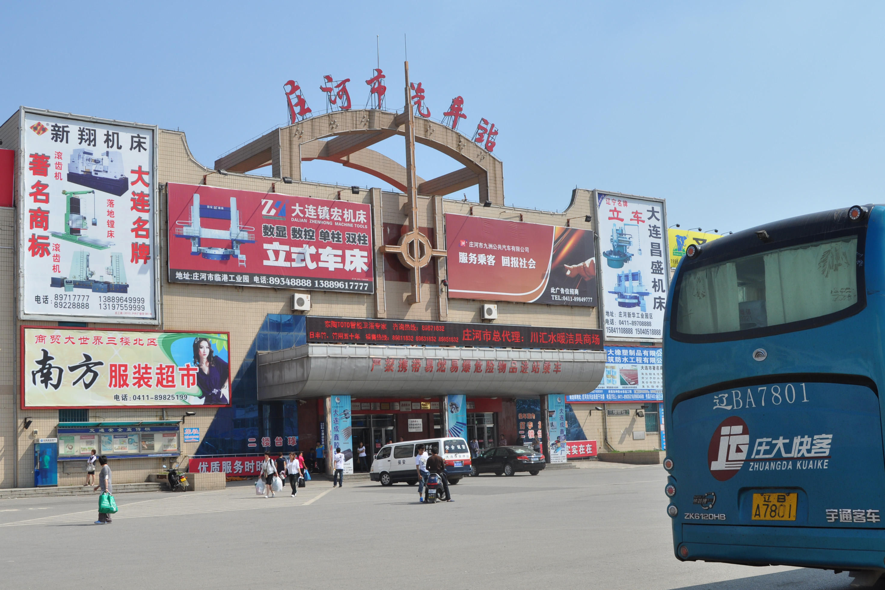 Zhuanghe Bus Station, Dalian, Liaoning, China